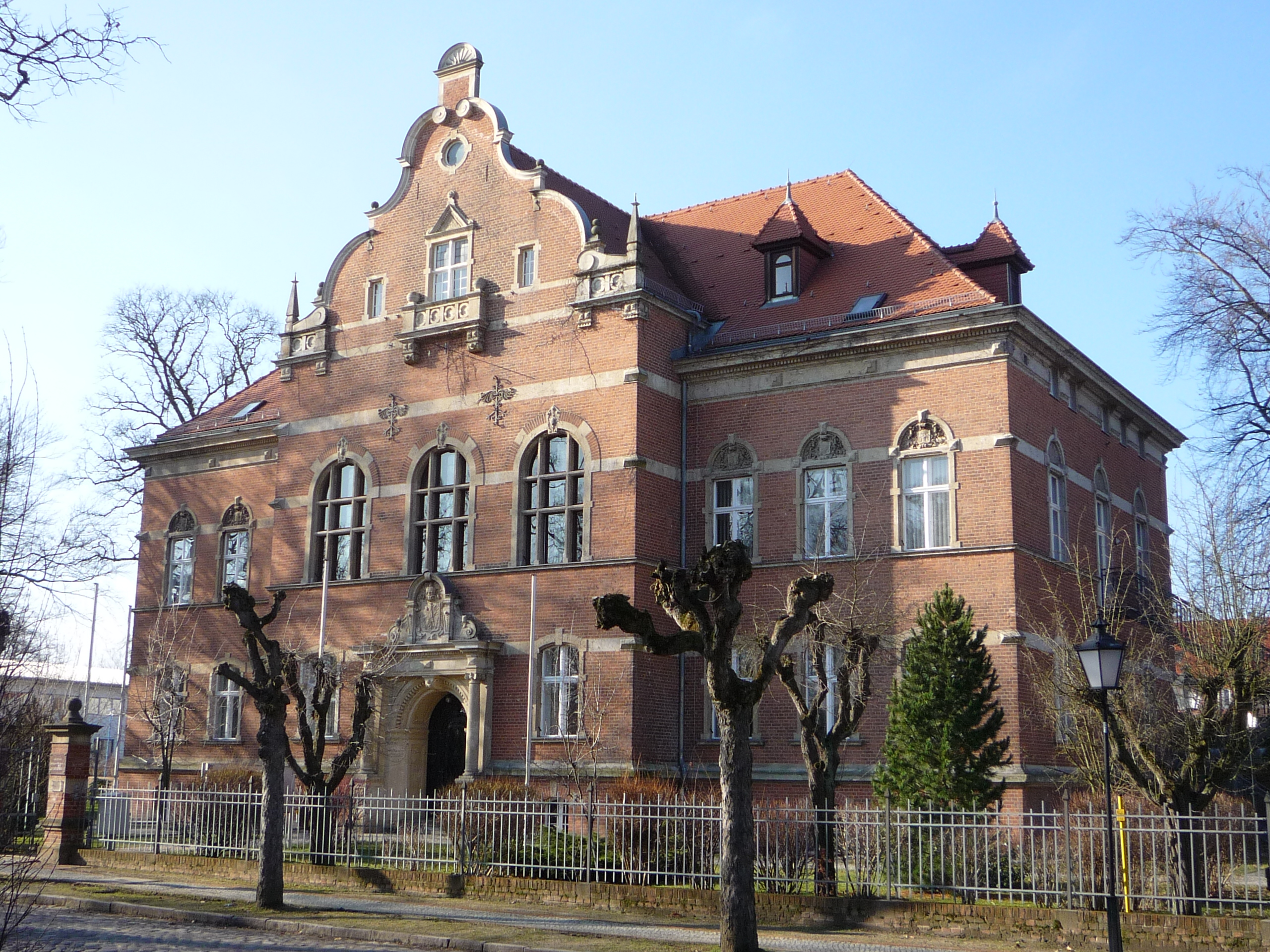 Potsdam-Mittelmark District building, Bad Belzig, Brandenburg